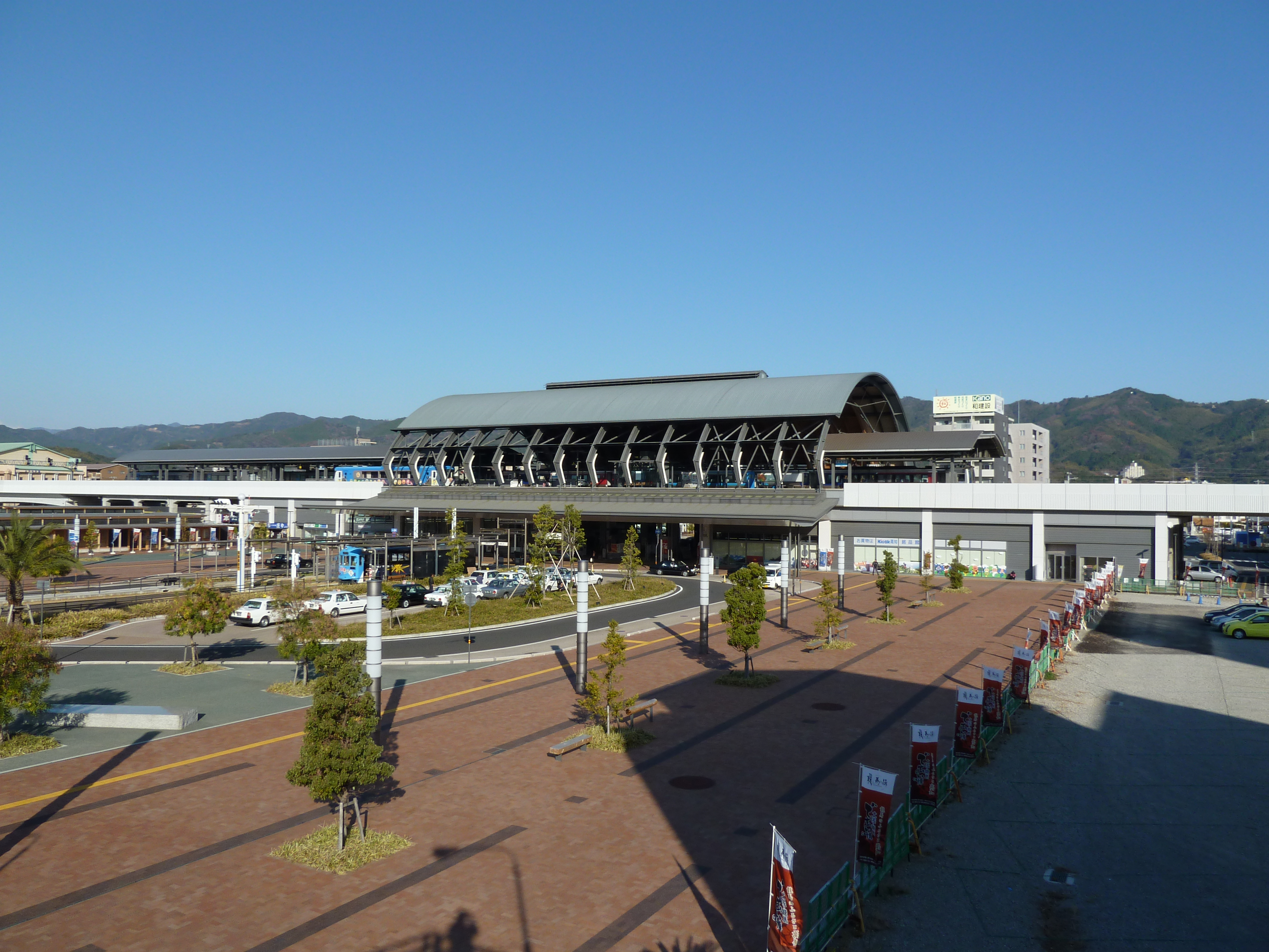 高知駅の駅舎